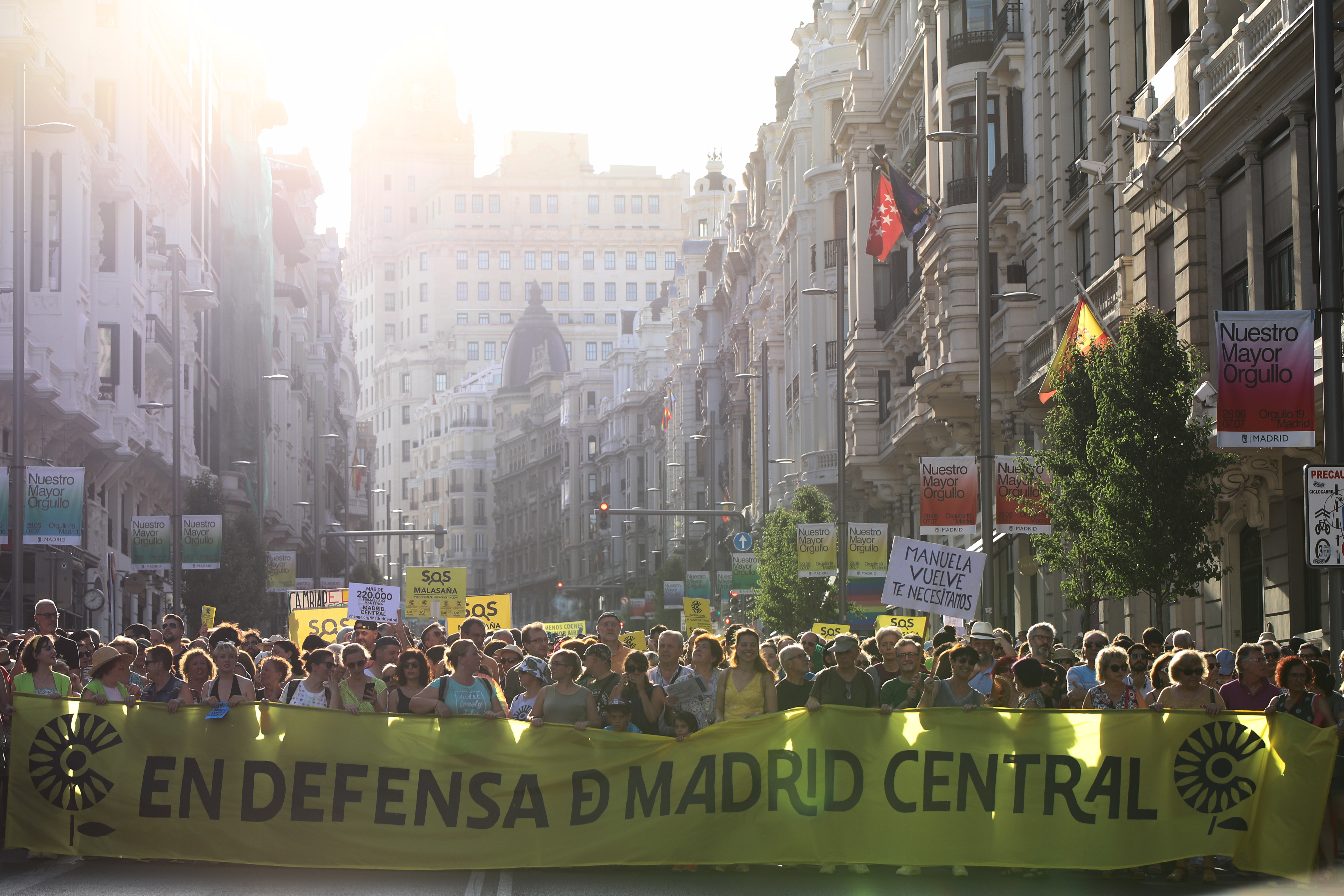 In Madrid about 60000 people demonstrate for the preservation of the inner-city environmental zone Madrid Central. The newly elected right-wing government of the city of José Luis Martínez-Almeida wants to impose a moratorium, although the air values in the city centre have recovered significantly since the introduction of the zone.